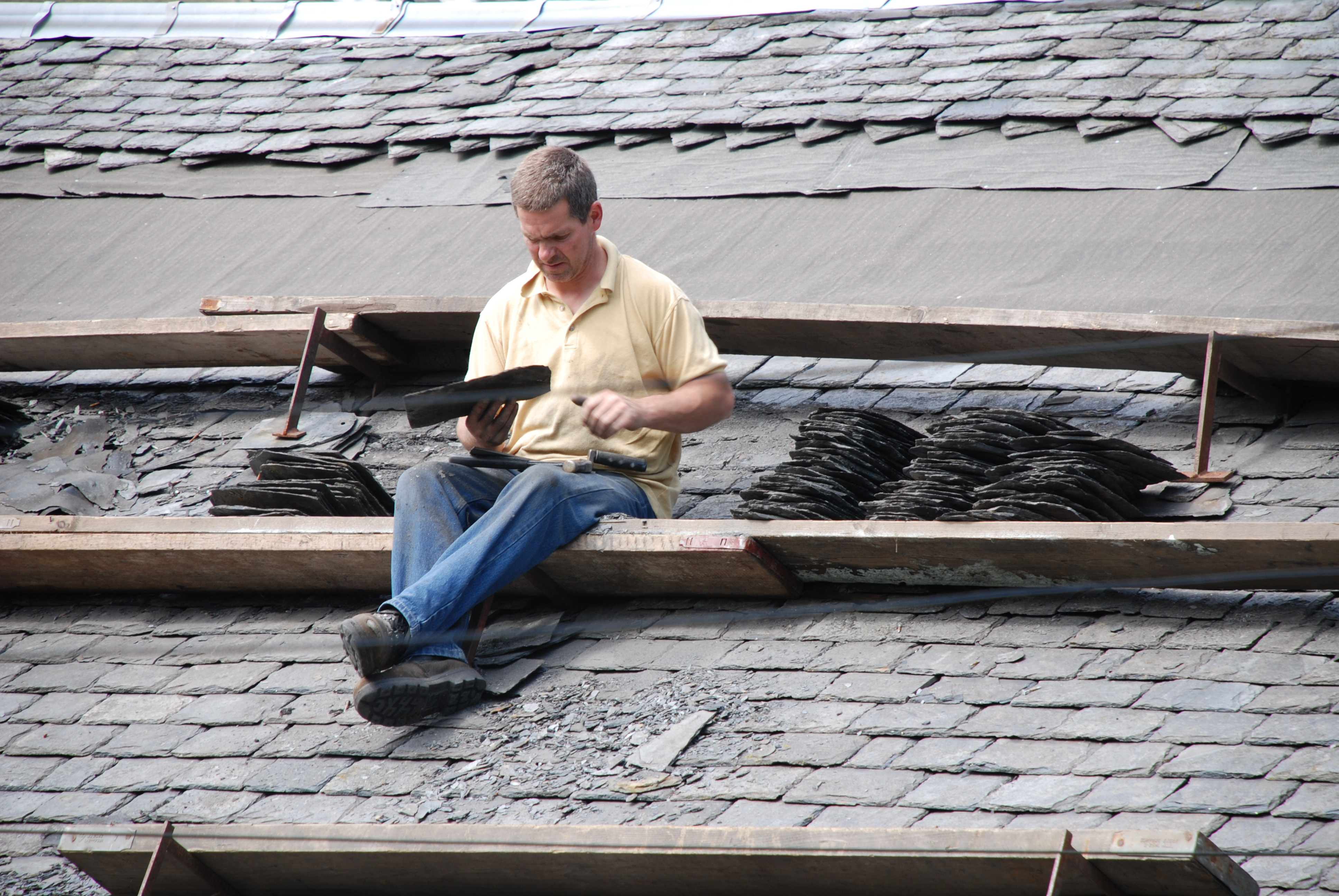 A slater working on the roof of a house in Bishop Terrace, Rothesay, Isle of Bute